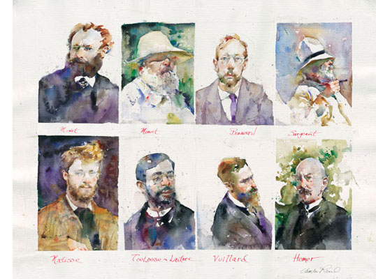 These are favorite artists of the American painter, Charles Reid